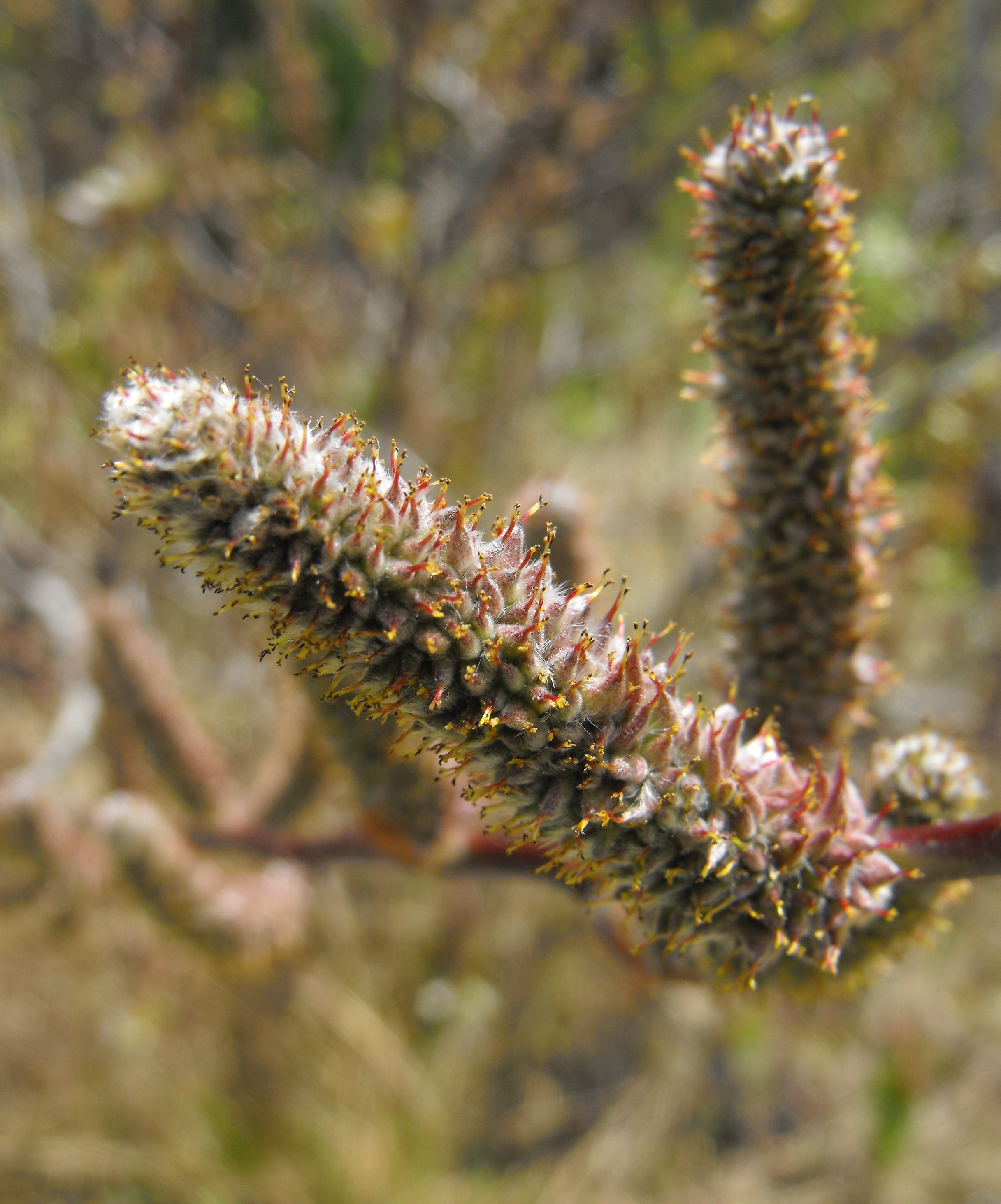 Salix breweri at the UC Berkeley Botanical Garden, California, USA. Identified by sign.